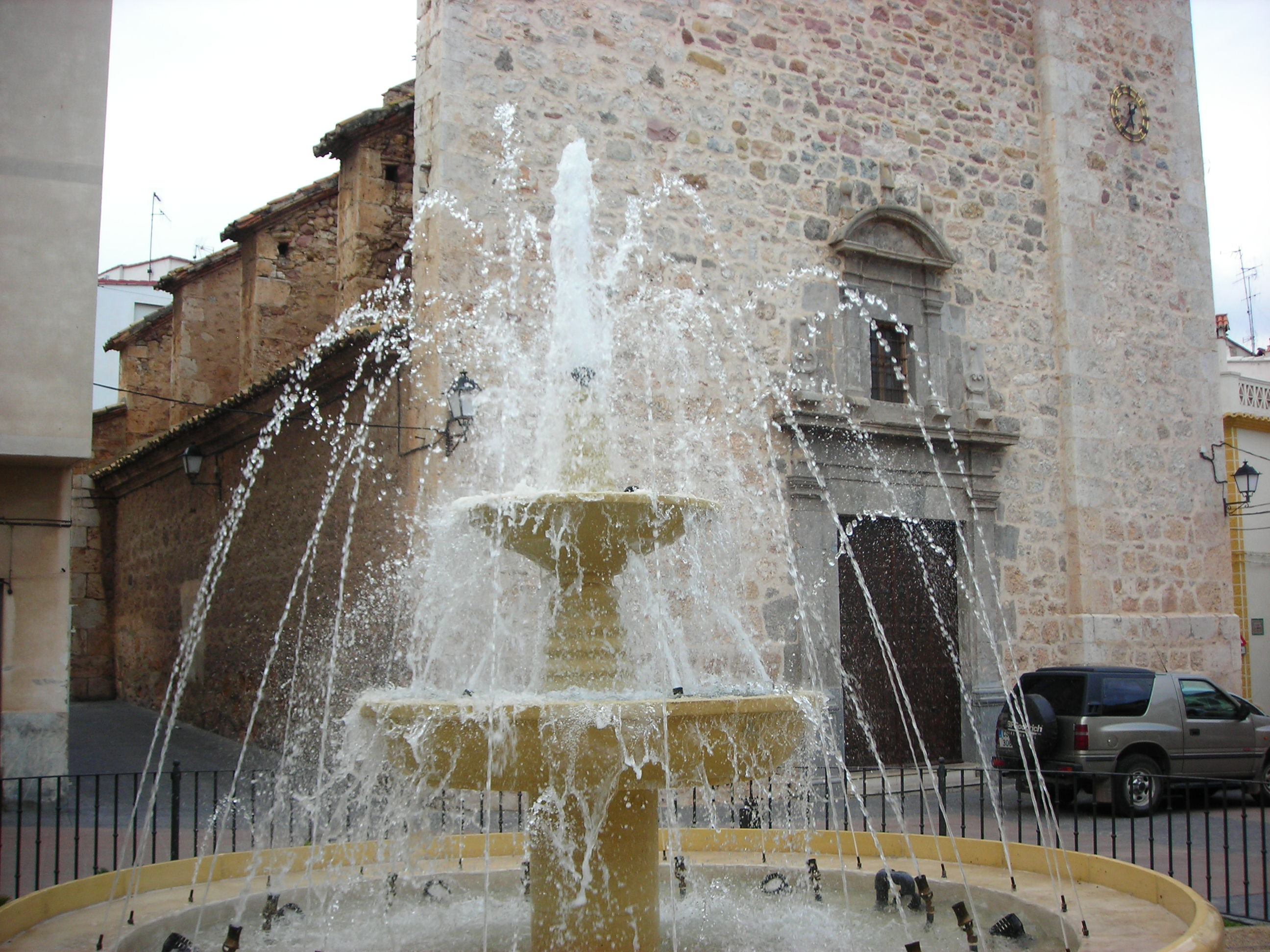 Geldo